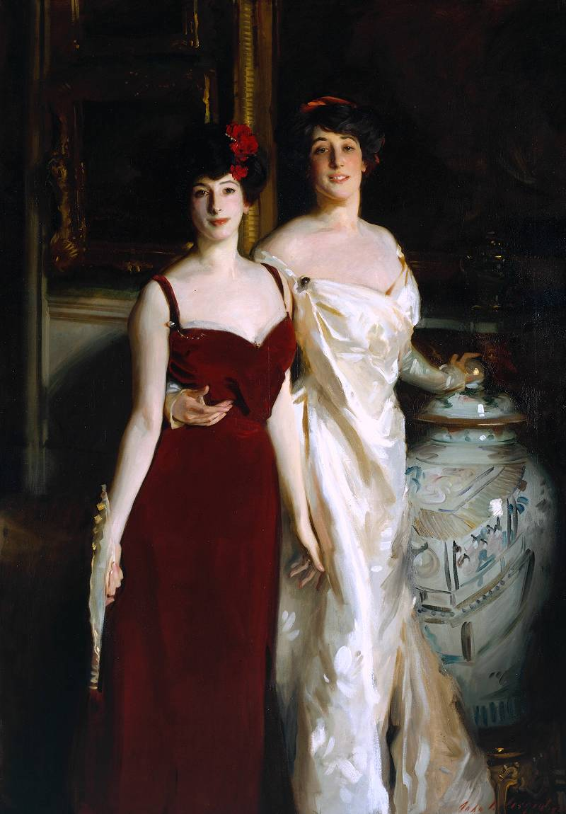 Ena and Betty, Daughters of Asher and Mrs. Wertheimer